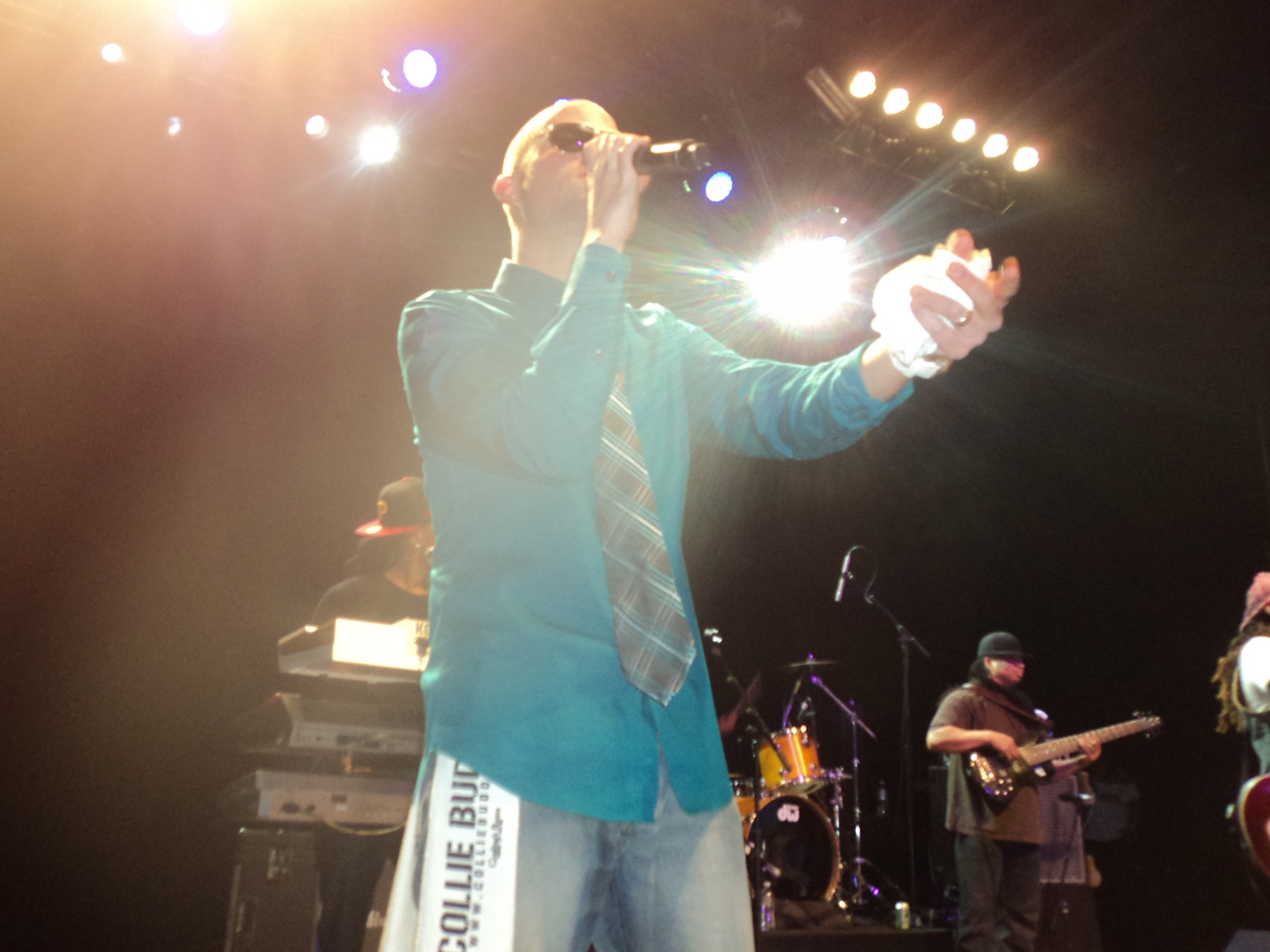 Collie Buddz performs at Sound Academy nightclub in Toronto, Ontario, Canada, on January 30th, 2012. He performed alongside reggae band New Kingston.